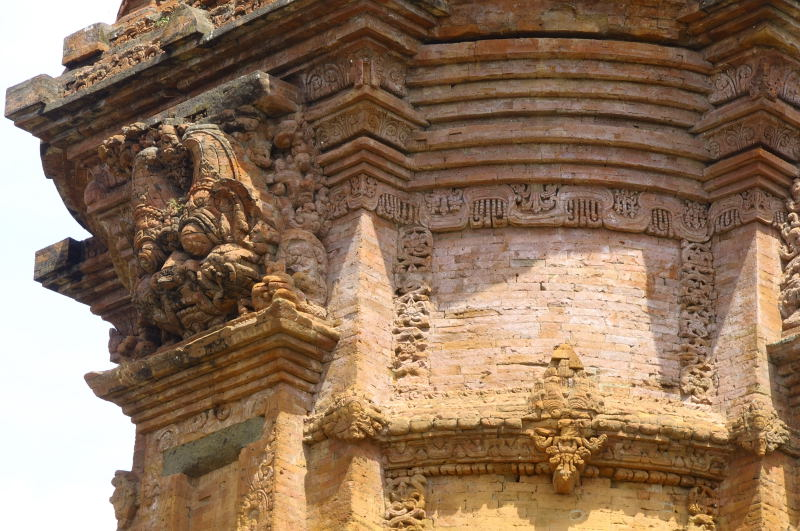 Candi Jabung, Paiton, Probolinggo, Jawa Timur